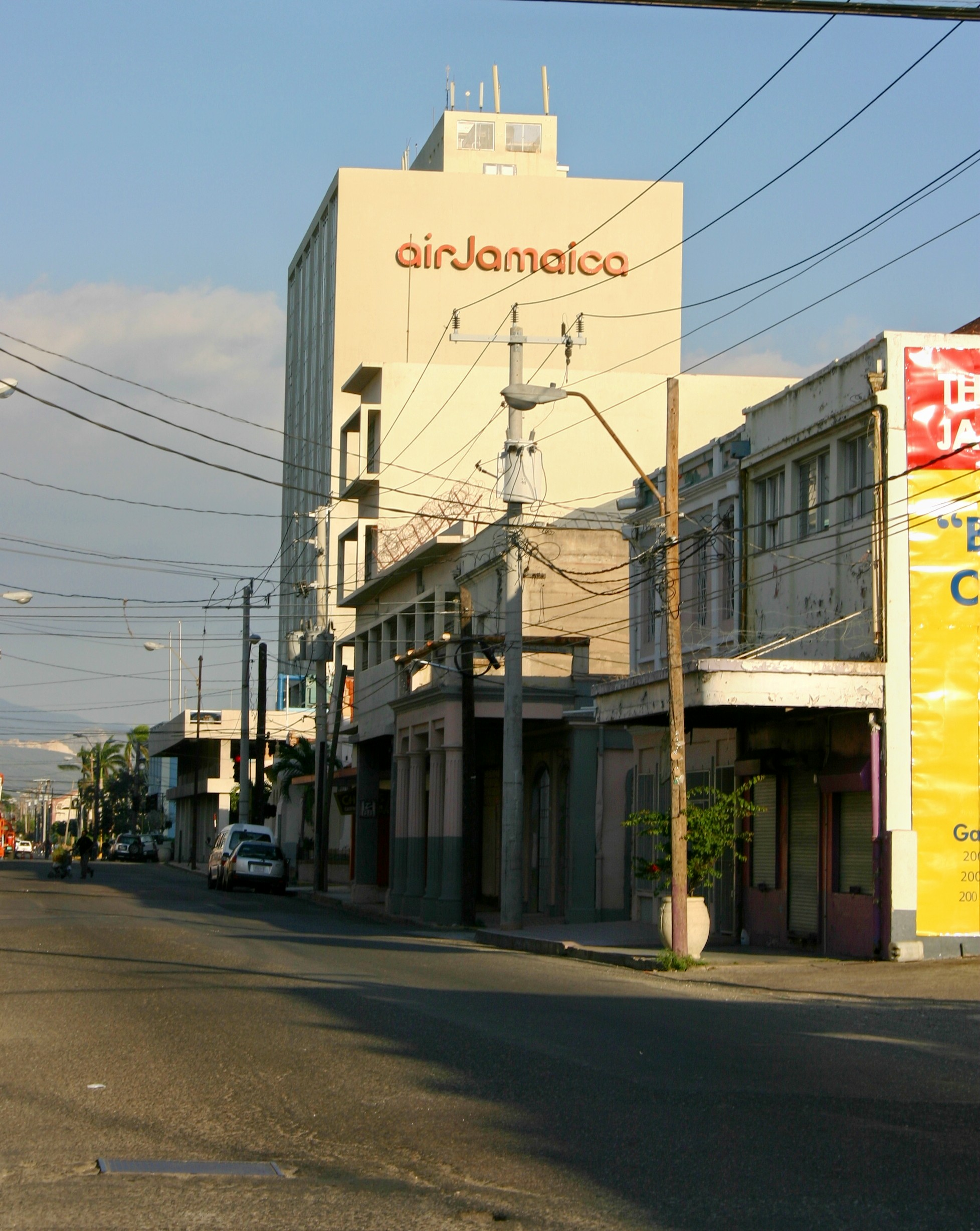 Former Air Jamaica building as photographed at a stoplight to the west of the building